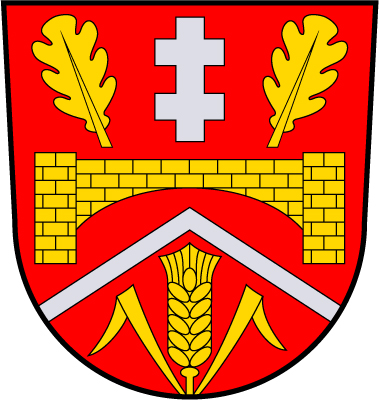 Coat of arms of Fürweiler, district of Rehlingen-Siersburg